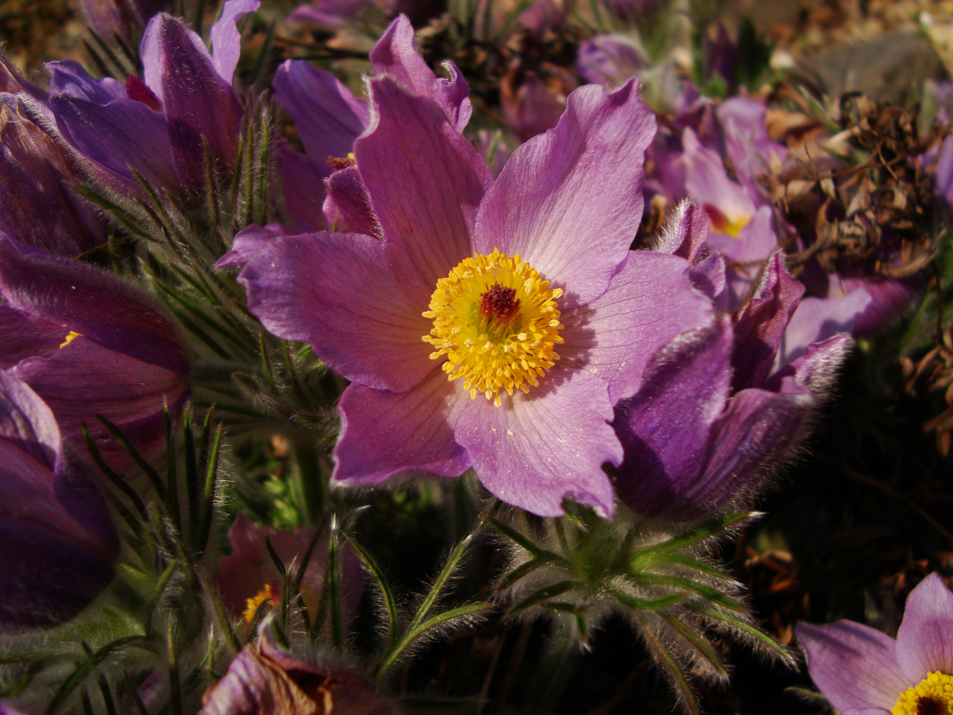 Pulsatilla styriaca seen in the Botanical Garden of Graz Austria